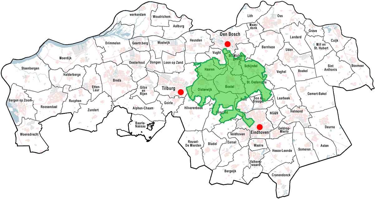 National Park Het Groene Woud (The Green Forest) in the dutch province Noord-Brabant within the triangle of the towns Tilburg, 's-Hertogenbosch and Eindhoven.